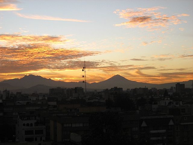 Mexican volcanoes from Mexico City, 2010.